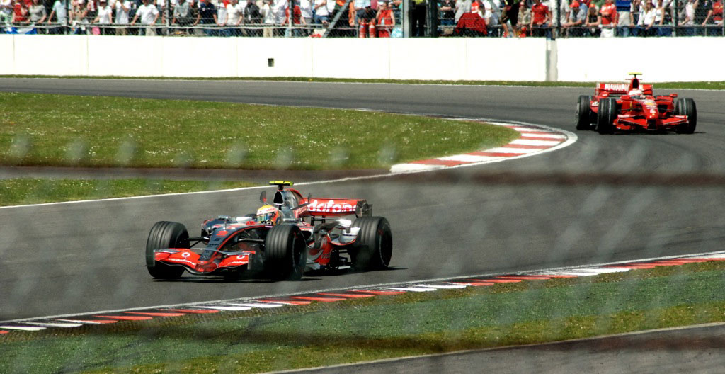 Hamilton and Raikkonen on 2007 British Grand Prix